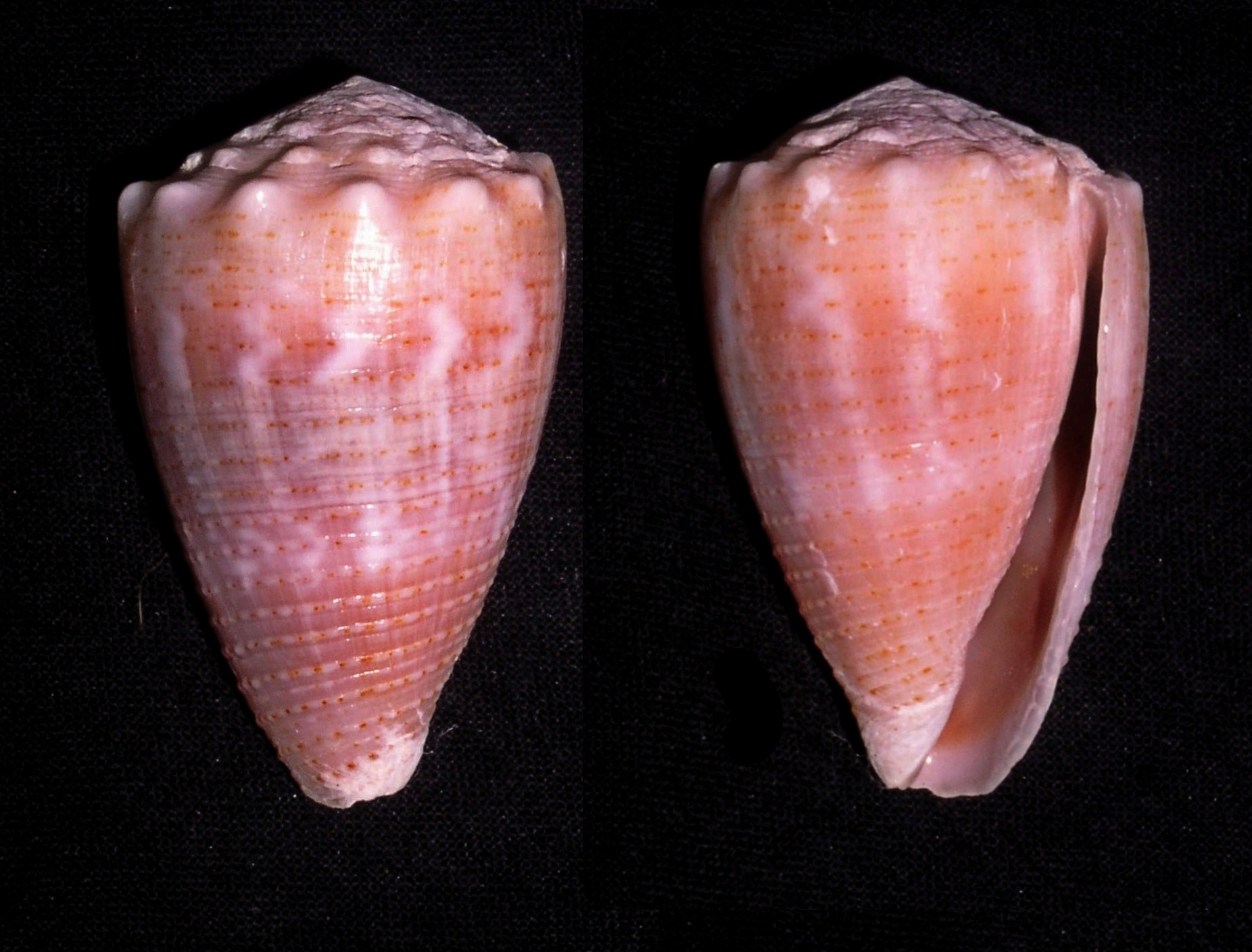 Conus miliaris Hwass in Bruguière, 1792